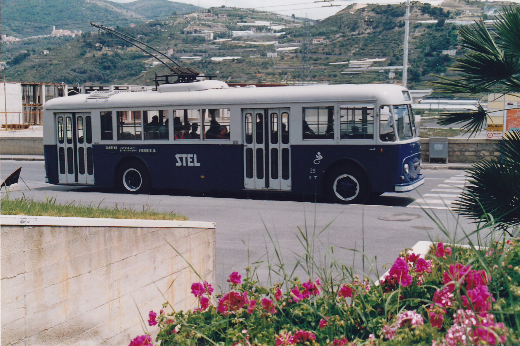 Heritage trolleybus n.29 in Taggia